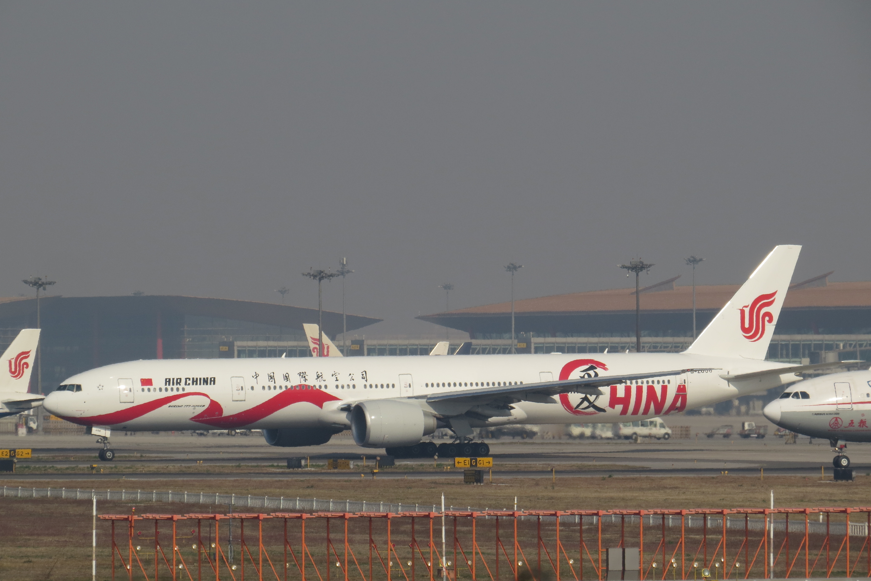 Several days ago, this Flight 1315 was flown by Boeing 747-8s. Today, the 747-8 was flying CA1351/1352, also a Beijing-Guangzhou flight.